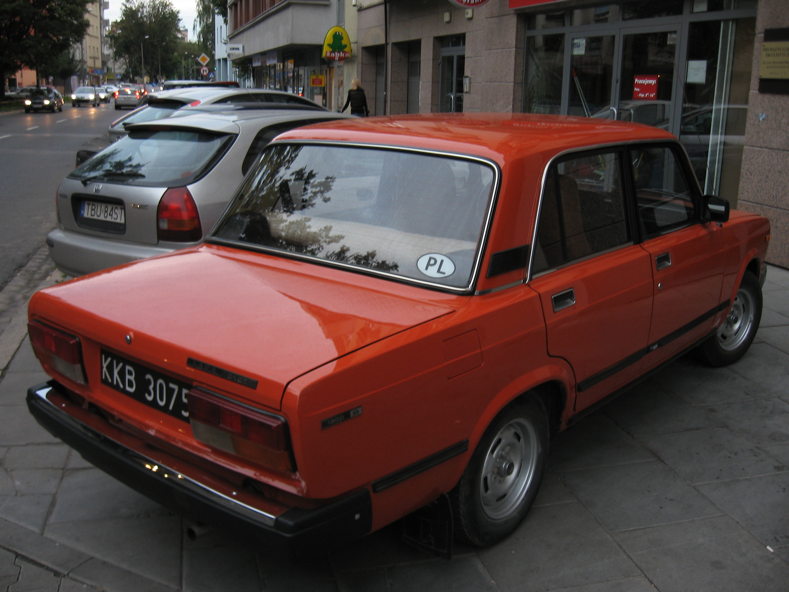 Lada 2107 1300 S in Kraków.